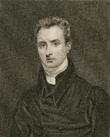 Folger Shakespeare Library Digital Image Collection Collection Folger Shakespeare Library Digital Image Collection Collection Source Creator: Thomson, James, 1788-1850, printmaker. Author Thomson, James, 1788-1850, printmaker. Source Creator Source Title: Mr. William Farren of the Theatre Royal, Covent Garden [graphic] / engraved by J. Thomson from an original painting by George Clint ... CD_Title Mr. William Farren of the Theatre Royal, Covent Garden [graphic] / engraved by J. Thomson from an original painting by George Clint ... Source Title Source Created or Published: [London, England] : Published for the proprietors of the European magazine by the executors of the late J. Asperne, 1822. Imprint [London, England] : Published for the proprietors of the European magazine by the executors of the late J. Asperne, 1822. Source Created or Published Source Call Number: ART File F245.5 no.1 (size XS) Call_Number ART File F245.5 no.1 (size XS) Source Call Number Digital Image File Name: 21748 ROOTFILE 21748 Digital Image File Name Digital Image Type: FSL collection Image_Type FSL collection Digital Image Type Hamnet Bib ID: 249540 Bibrecord001 249540 Hamnet Bib ID Hamnet Holdings ID: 322193